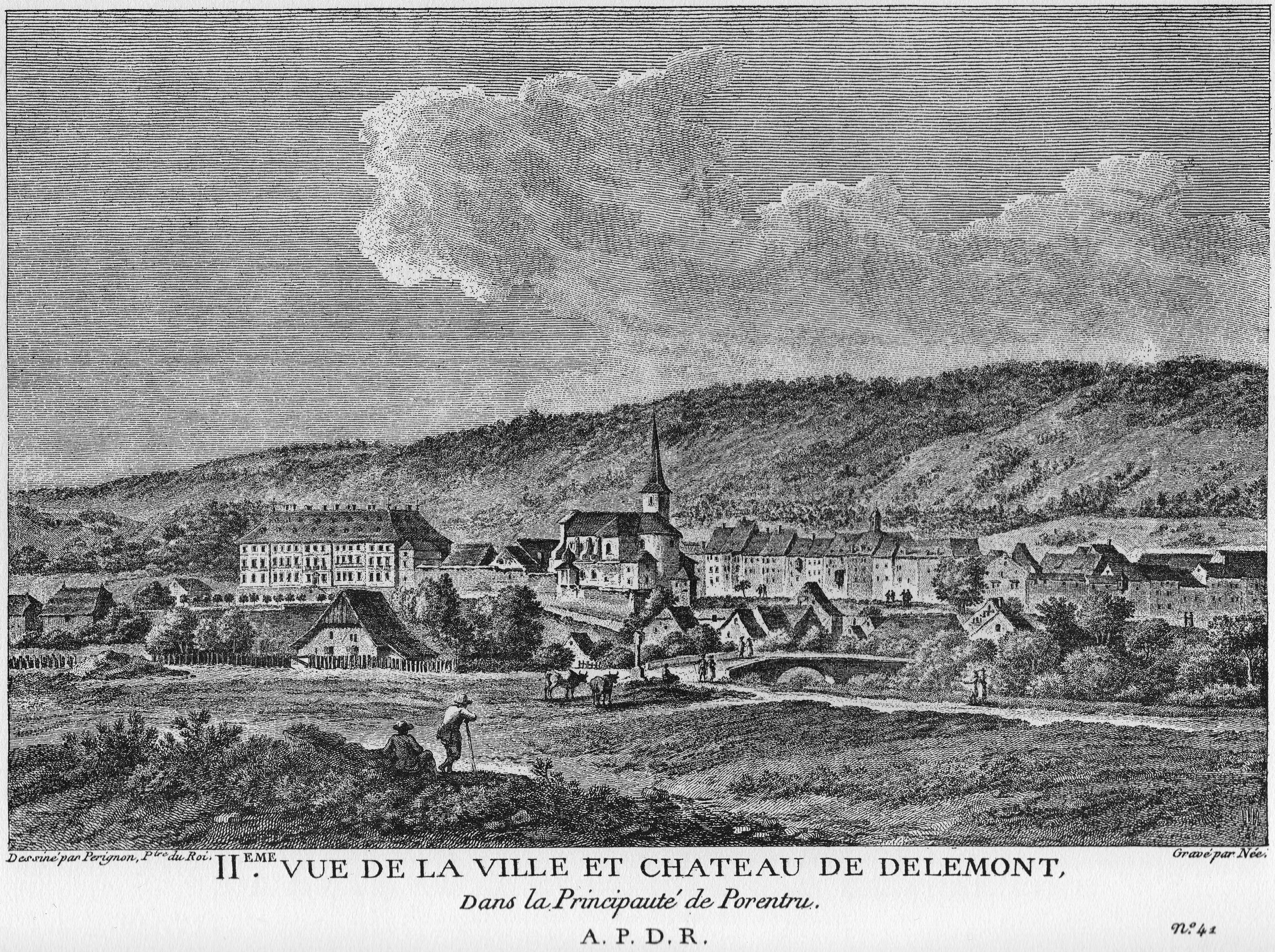 IInd View of the Town and Manor of Delémont in the Principality of Porentru. Copper Engraving by François-Denis Née after a Drawing by Nicolas Pérignon.